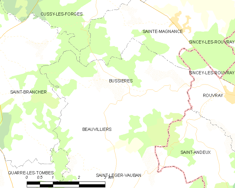 Map of French municipality Bussières